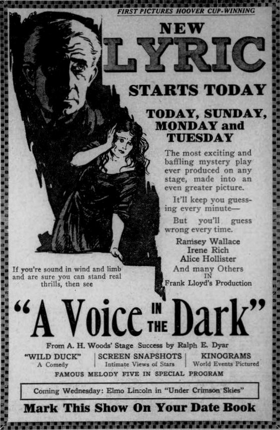 Newspaper advertisement for the American mystery film A Voice in the Dark (1920), on page 3 of the July 22, 1922 Duluth Herald.